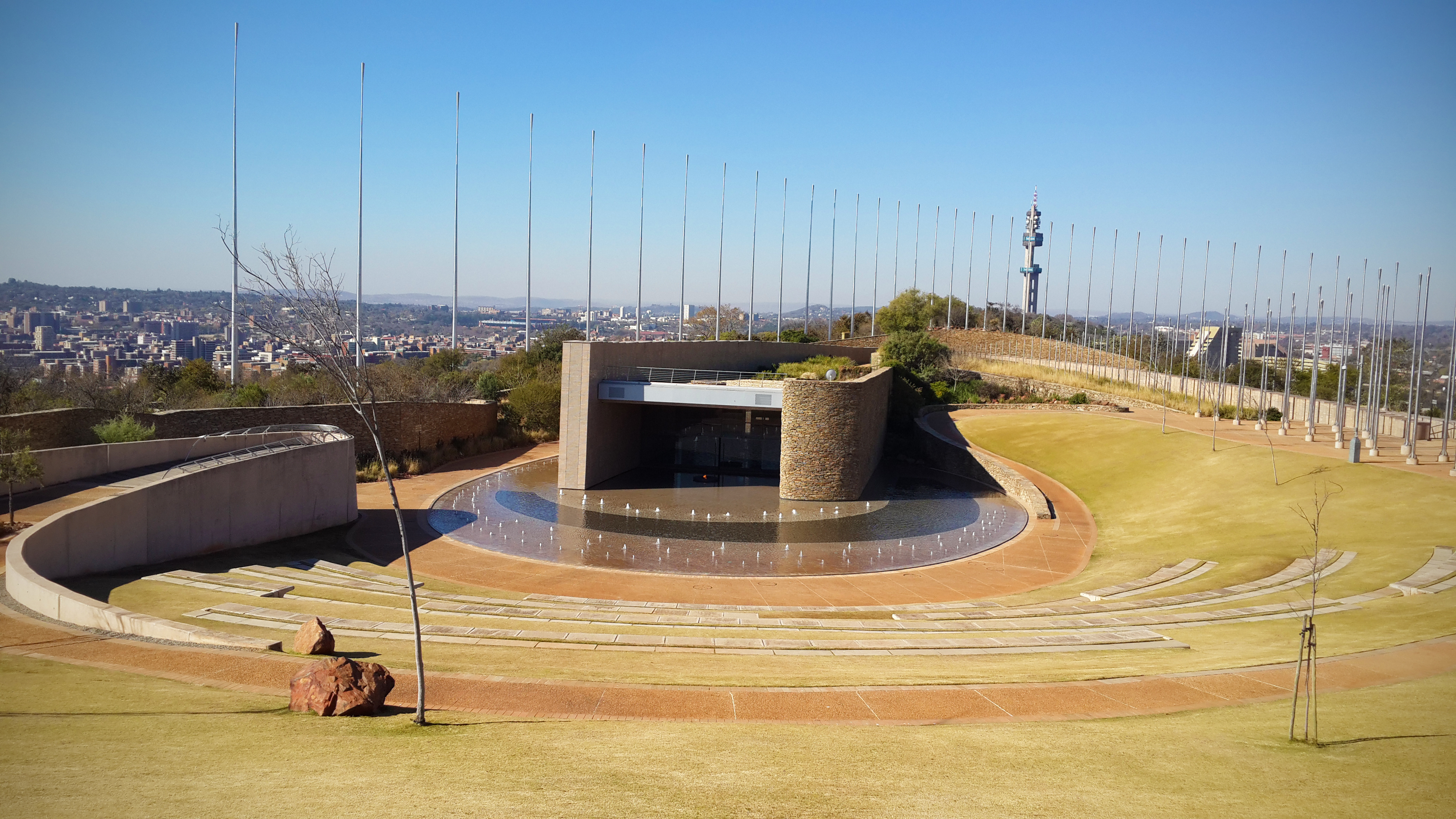 Freedom Park, Amphitheatre This media shows a South African Protected Site with SAHRA file reference New.